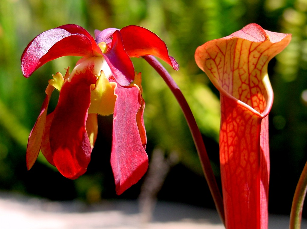 Description: Sarracenia rubra flower and pitcher Photo taken by: Noah Elhardt